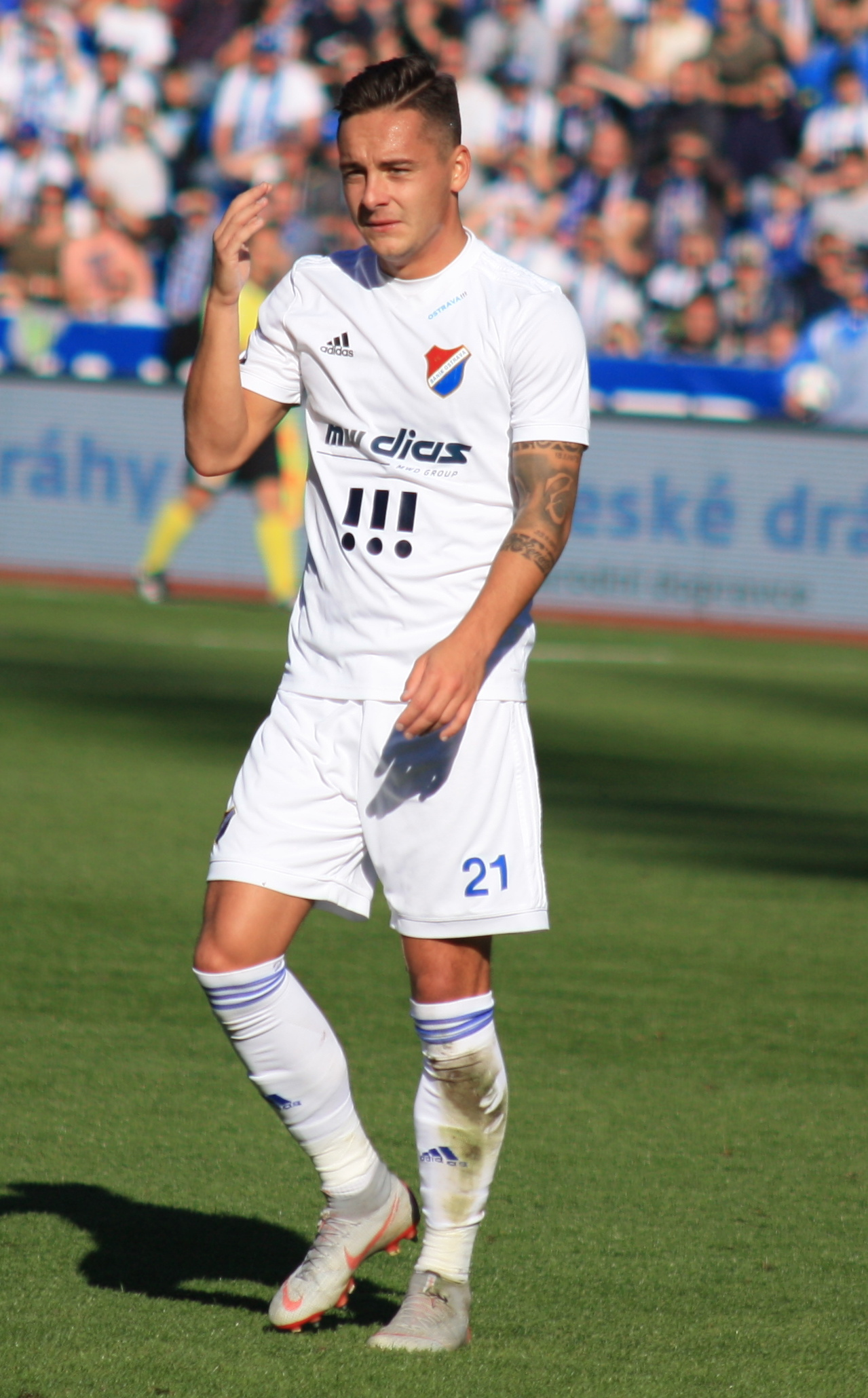 Daniel Holzer At Czech First League (Fortuna Liga) match FC Baník Ostrava-SK Slavia Praha played on 30. 9. 2018